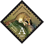 Stamp of Belarus